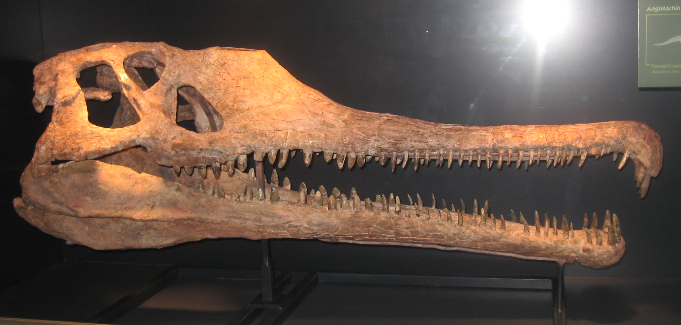 An Angisorhinus